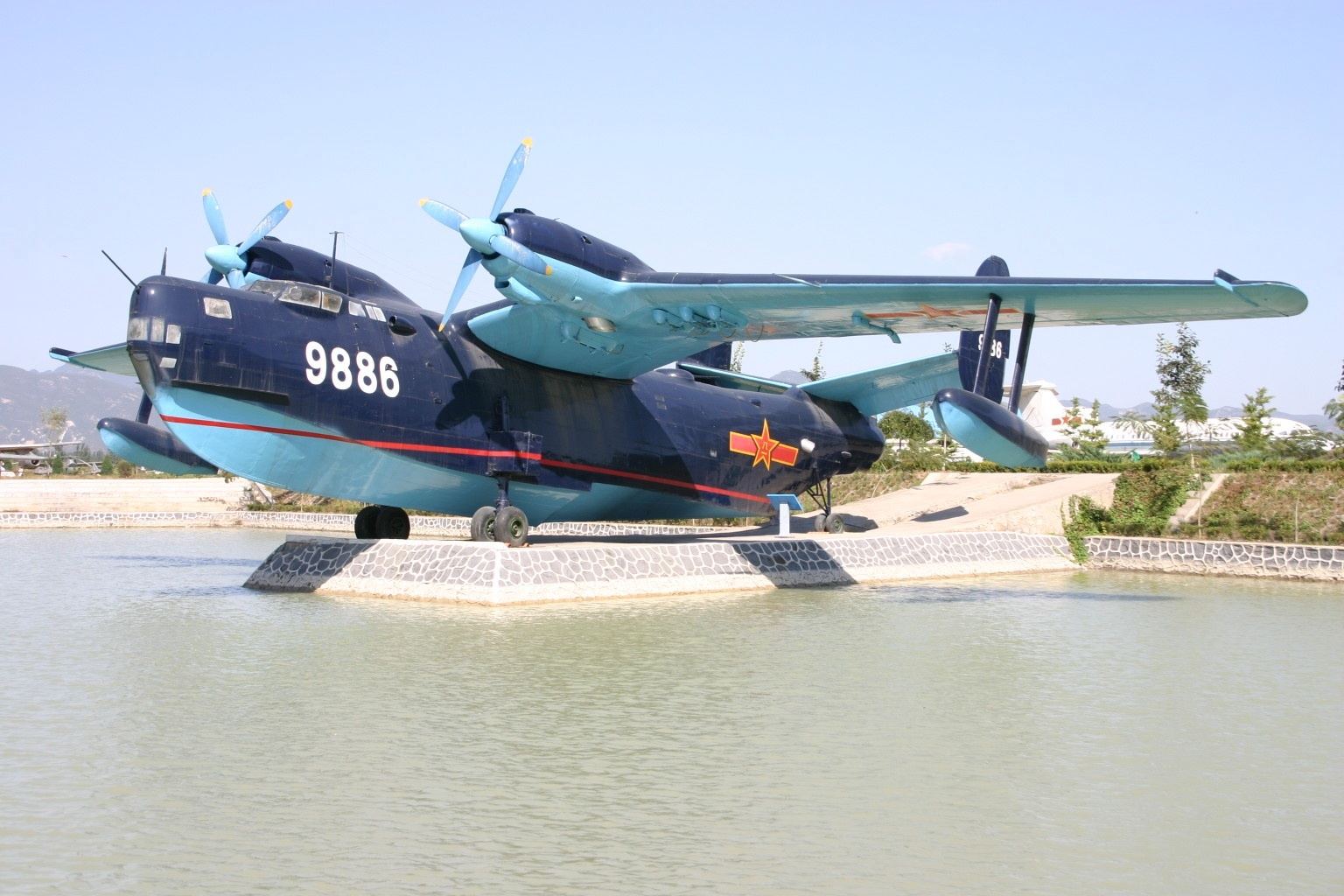 At Beijing Xiaotangshanzhen Aviation Museum